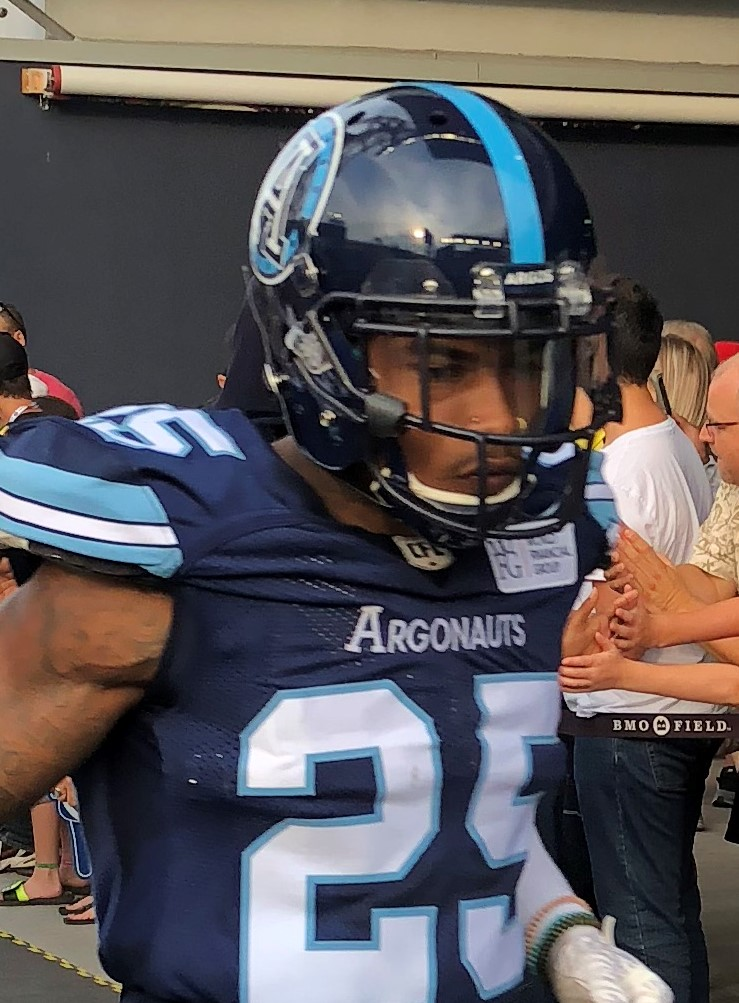 Ronnie Yell, defensive back for the Toronto Argonauts.